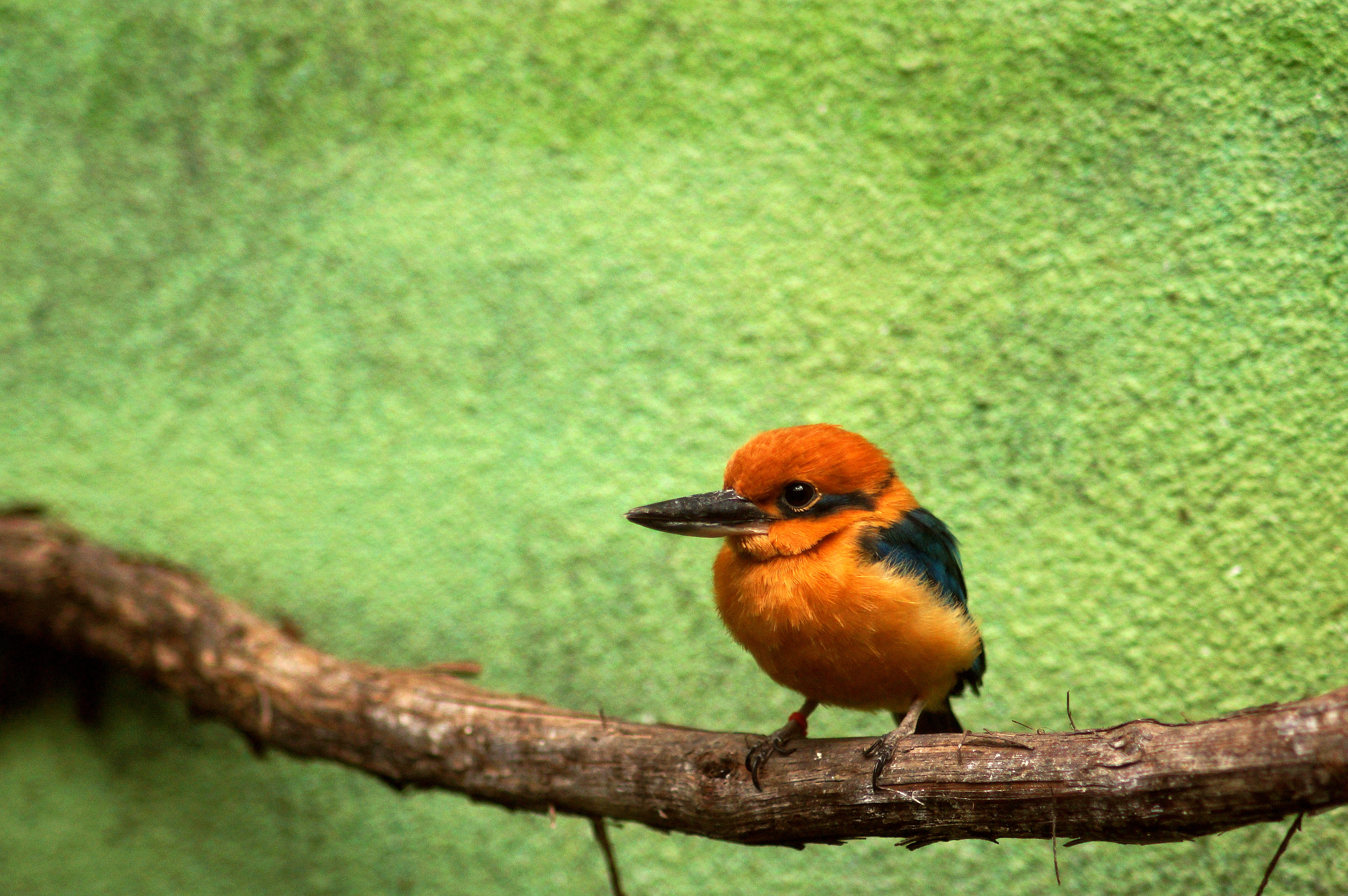 A Micronesian Kingfisher at Philadelphia Zoo, Pennsylvania, USA.